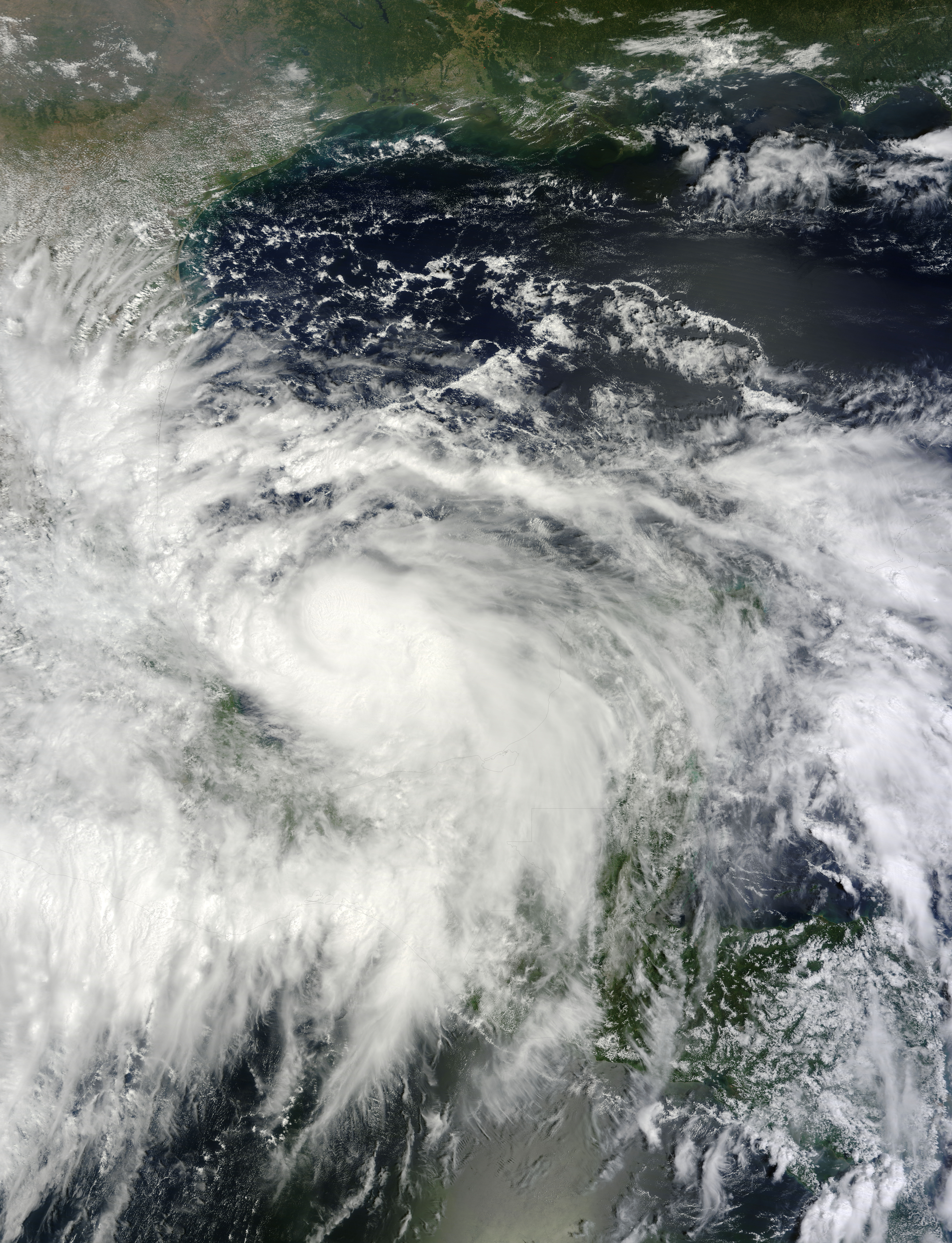 Hurricane Ingrid on September 14, 2013